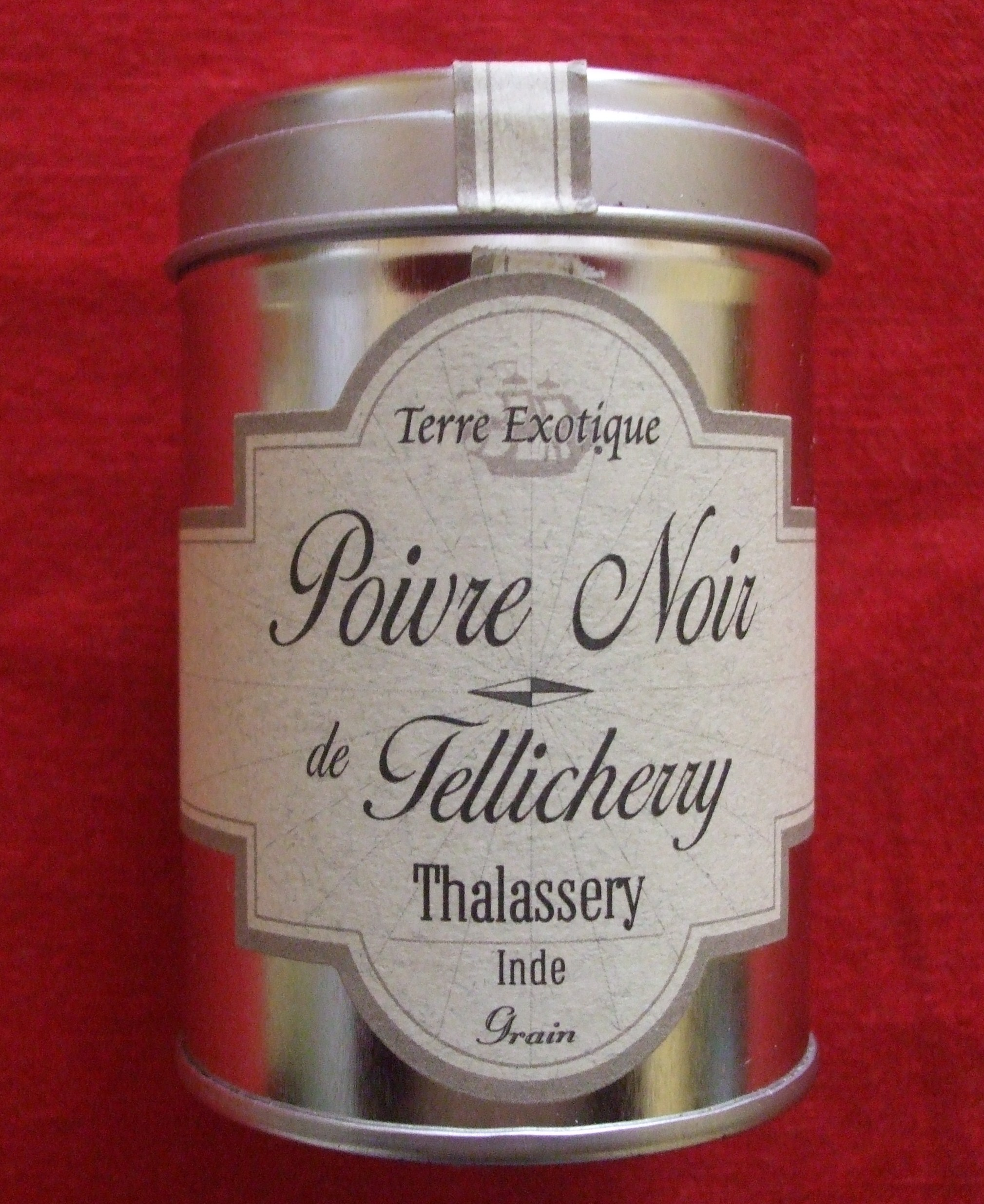 Tin of Tellicherry pepper; Terre exotique brand